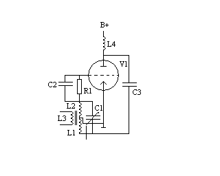 Radio Local Oscillator